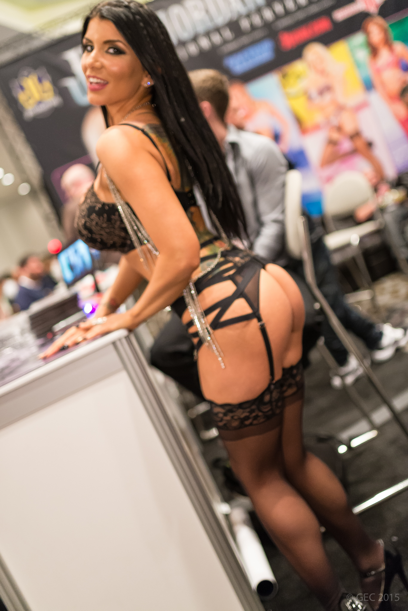 Romi Rain at the AVN Adult Entertainment Expo in Las Vegas on January 21, 2015